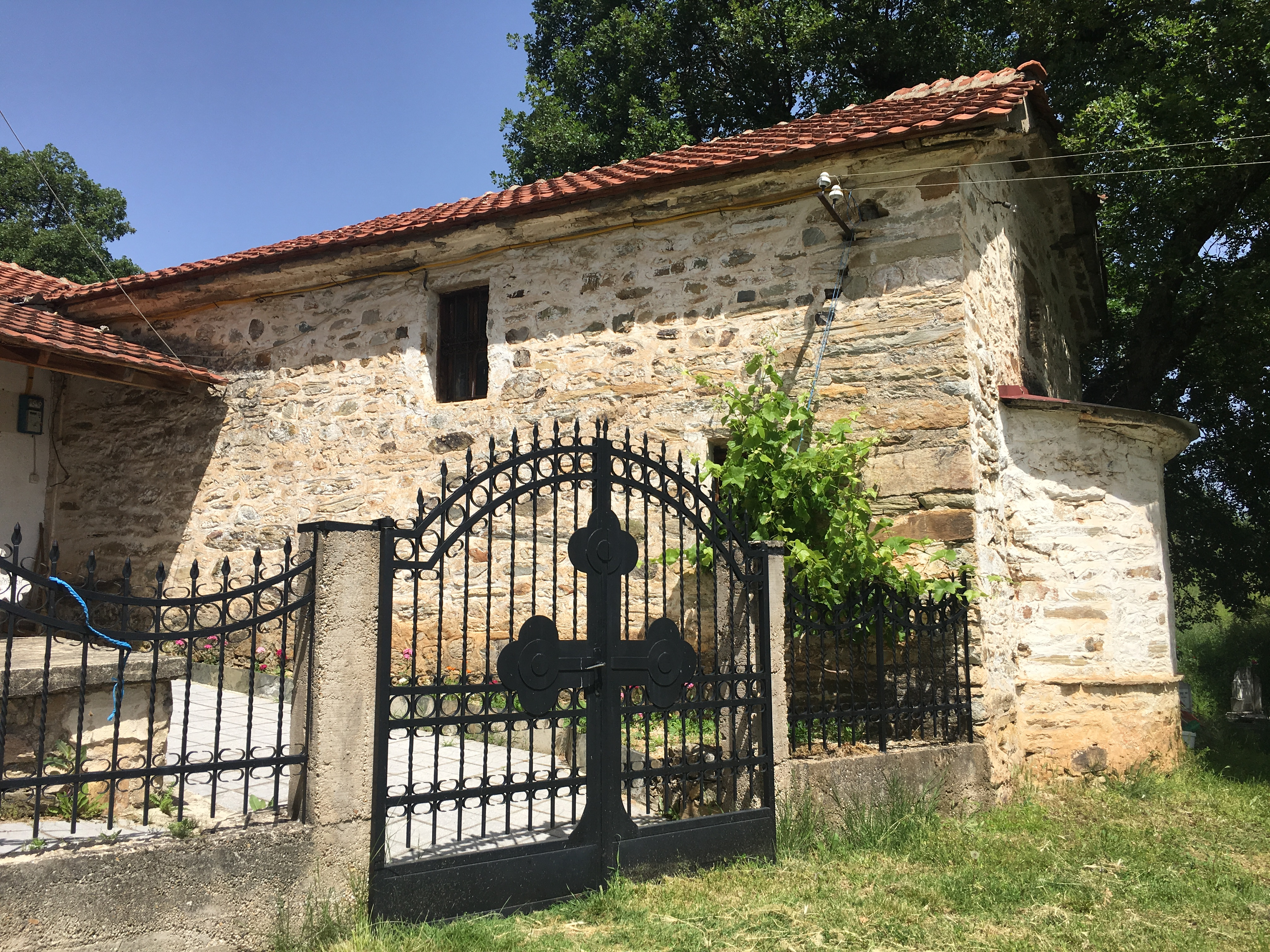 Church of St. Theodore Stratelates in the village of Sveto Todori